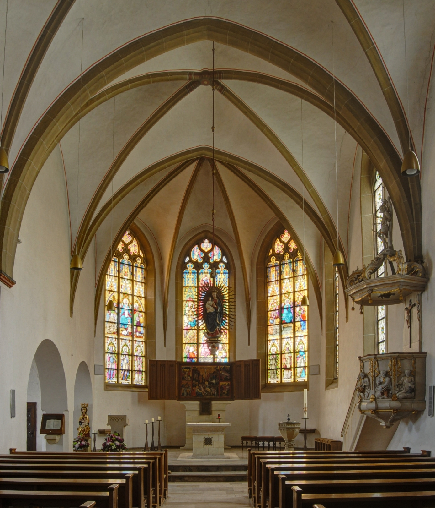 Nottuln (North Rhine-Westphalia, Germany) – district Darup – Catholic Saints Fabian and Sebastian church – view trough the nave to the choir This photograph was taken with a Nikon D3000